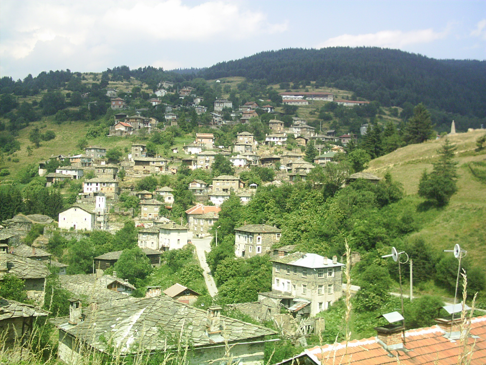 Sitovo village(summer season)